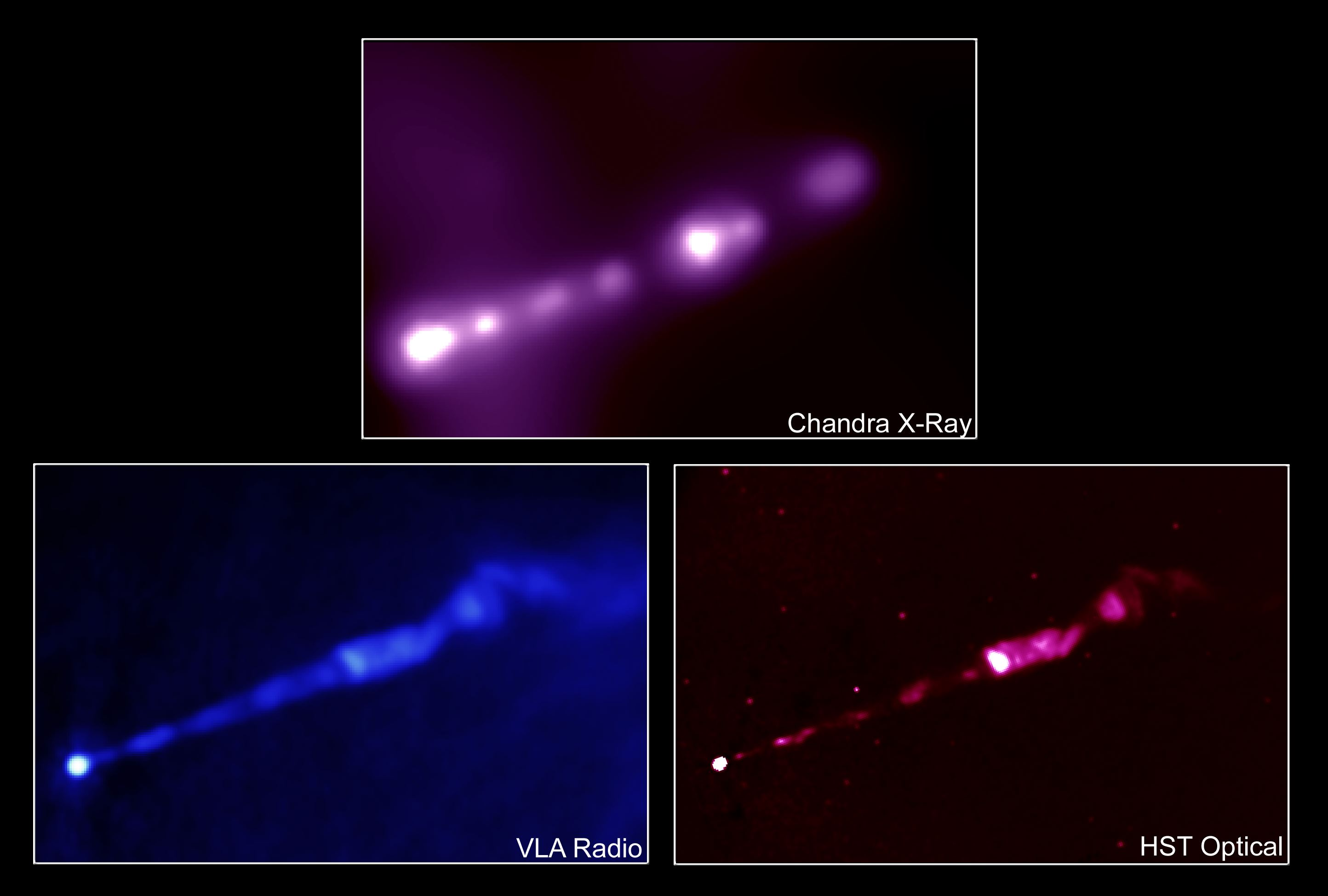 The energy jet of M87. Glow is caused by synchrotron radiation, high-energy electrons moving along a spiral track along the magnetic field, first discovered in 1956 by Geoffrey R. Burbidge'a in M87, confirming predictions Hannes Alfvén and Nicolai Herlofsona of 1950 and Iosif Samuilovicha Shklovskyego 1953.